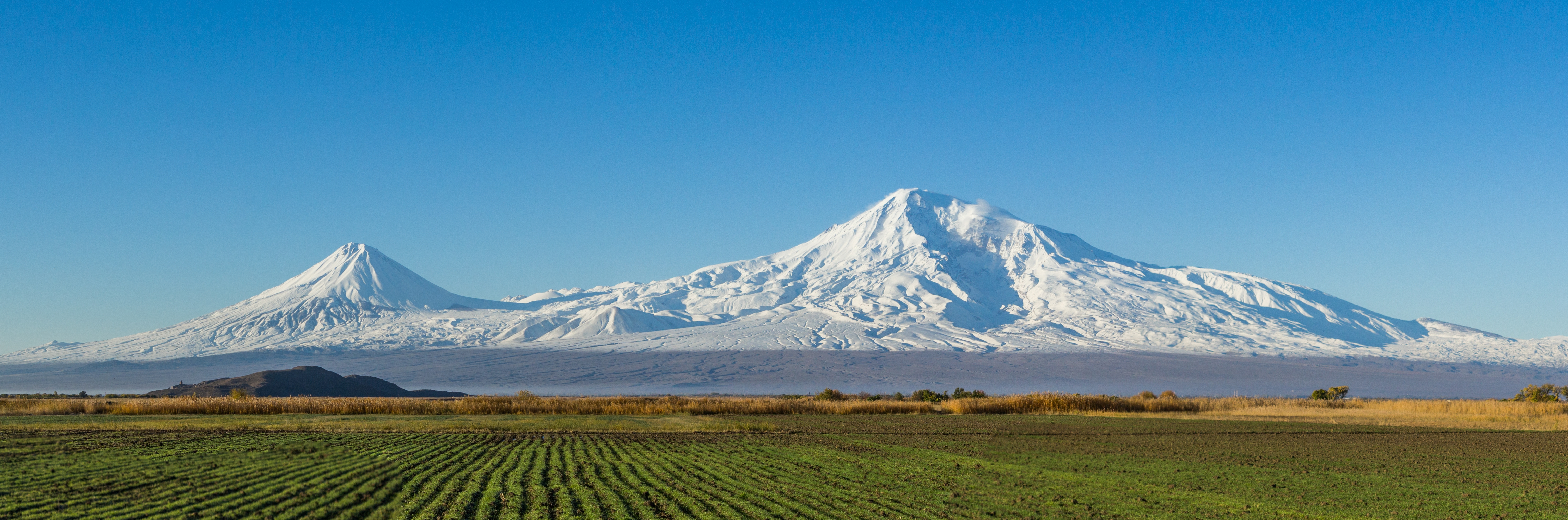 Mount Ararat and the Araratian plain seen early morning from near the city of Artashat in Armenia. On the center left can be seen the historic Khor Virap monastery. (stitched from two images)